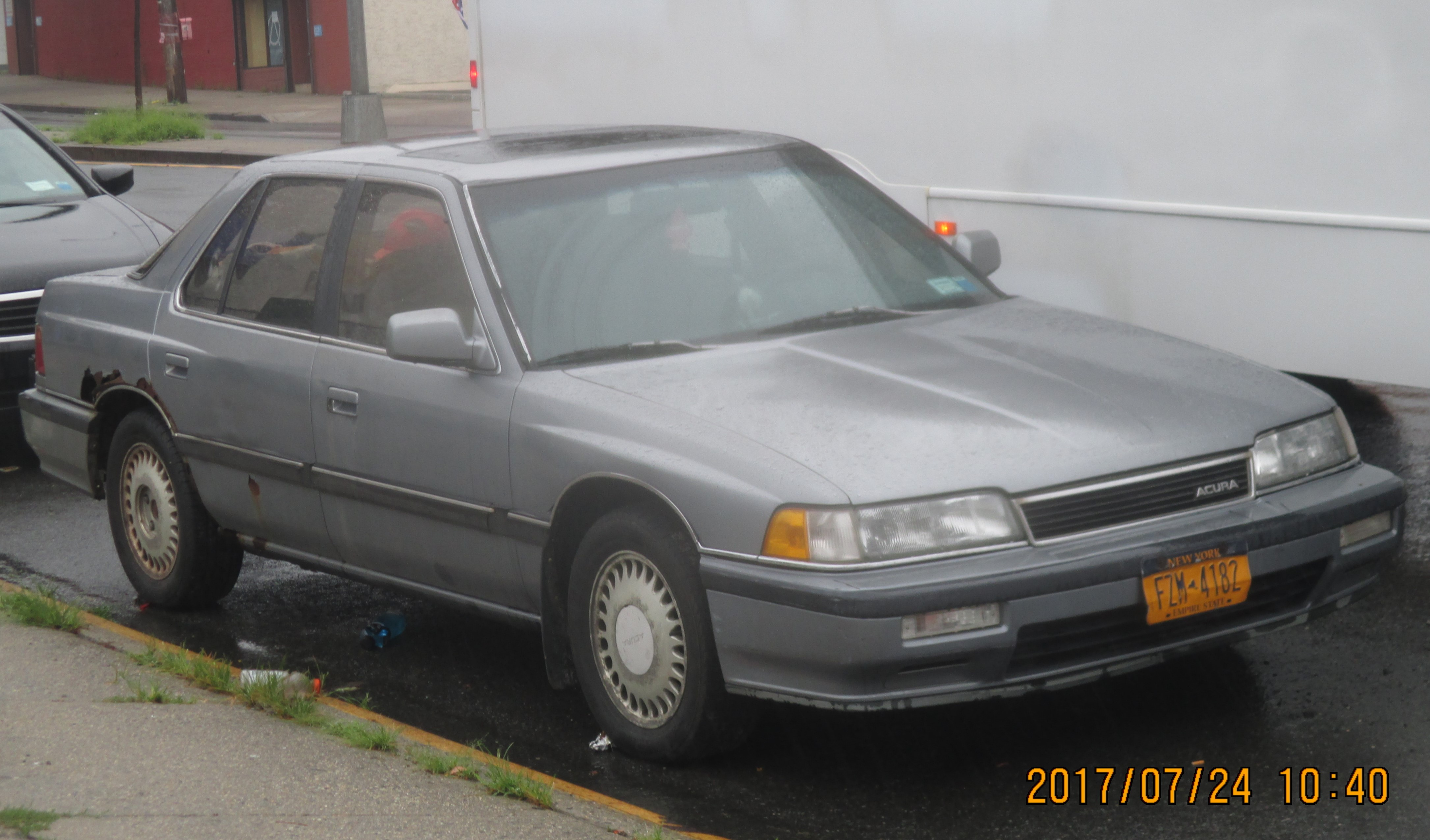 In College Point, NY